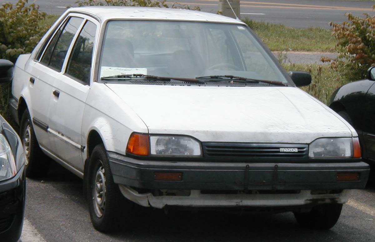 1988-1989 Mazda 323 photographed in USA.